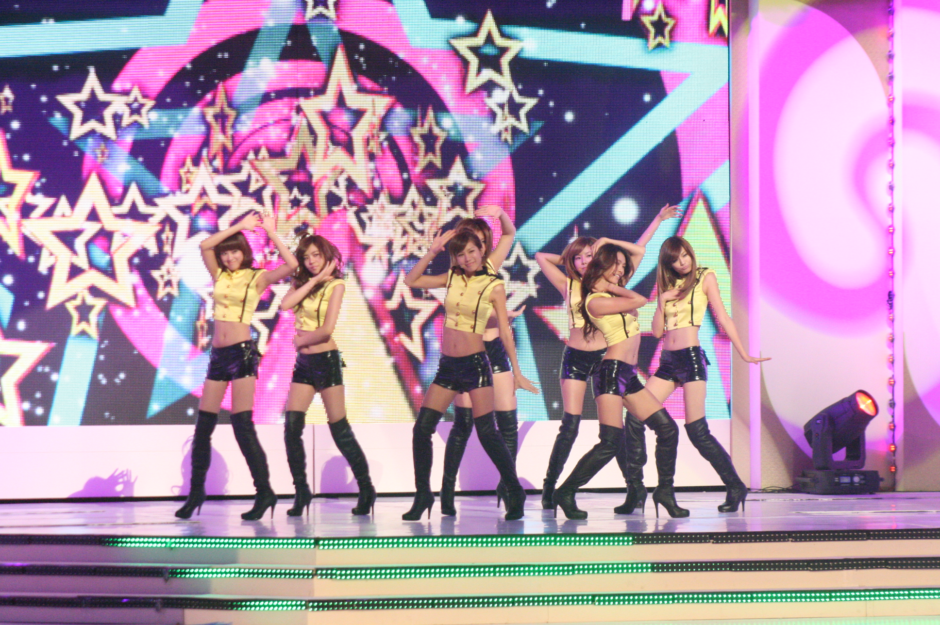 Miss Korea 2010 After School.